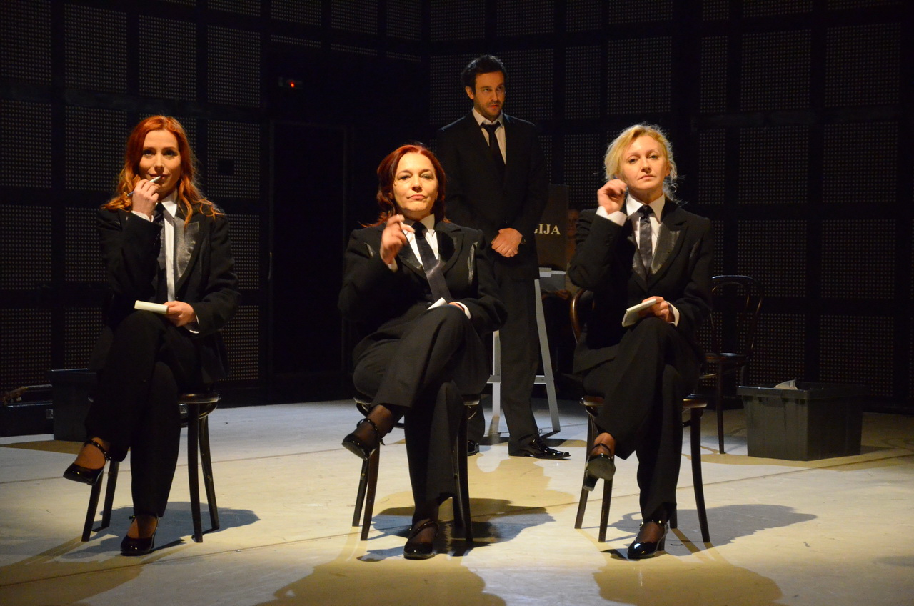 "Very Happy People" written and directed by Predrag Štrbac; Drama of the SNT, Novi Sad, 2011/12, Sonja Damjanović, Lidija Stevanović, Sanja Mikitišin - sit, Nebojša Savić - stands Srpski (latinica): "Presrećni ljudi" napisao i režirao Predrag Štrbac; Drama SNP-a, Novi Sad, 2011/12; Sonja Damjanović, Lidija Stevanović, Sanja Mikitišin - sede, Nebojša Savić - stoji Српски (ћирилица): "Пресрећни људи" написао и режирао Предраг Штрбац; Драма СНП-а, Нови Сад, 2011/12; Соња Дамјановић, Лидија Стевановић, Сања Микитишин - седе, Небојша Савић - стоји